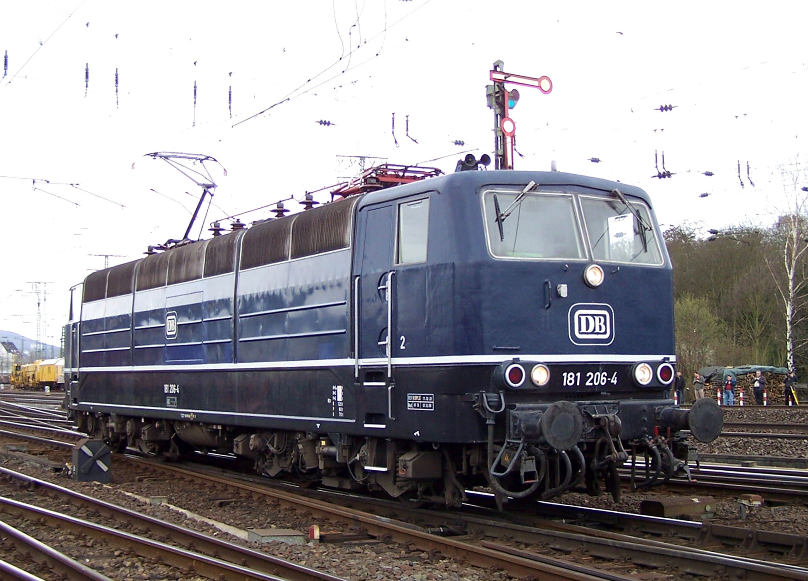 Electric locomotive 181 206 during a locomotive parade at the DB Museum in Koblenz-Lützel, a local branch of the Transport Museum in Nuremberg, April 2010